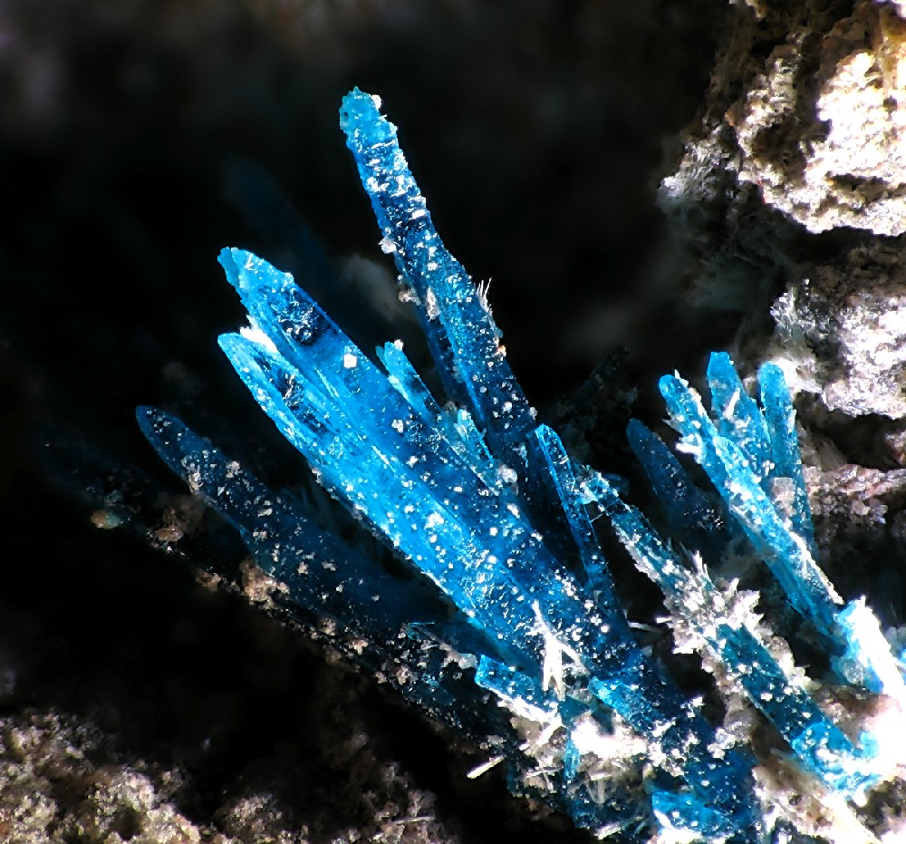 Chalcomenite Locality: El Dragón mine, Antonio Quijarro Province, Potosí Department, Bolivia (Locality at ) Picture width 4 mm. Collection and photograph Christian Rewitzer